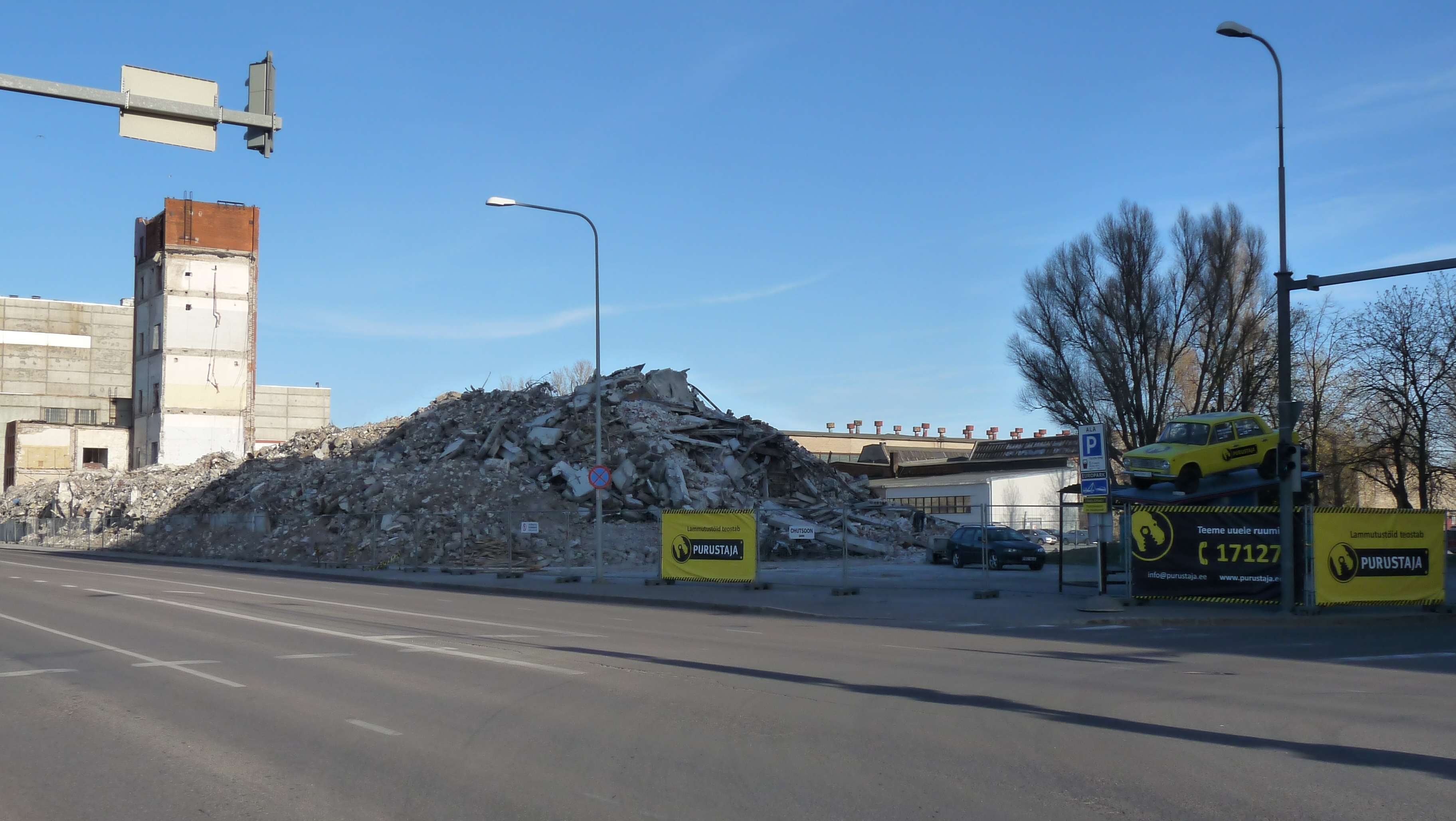 Demolition